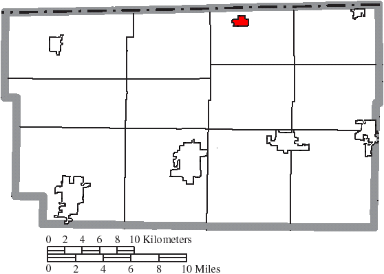 Map of the municipal and township boundaries of Fulton County, Ohio, United States, as of the 2000 census, with the location of the village of Lyons highlighted. Township borders are shown only in unincorporated areas in order to differentiate incorporated and unincorporated areas more clearly.